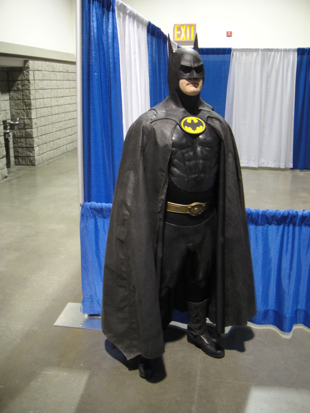 he's Batman